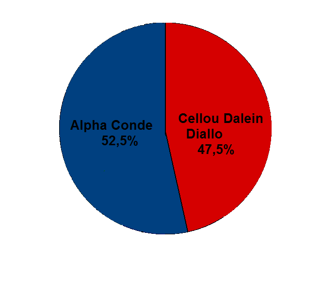 Guinea presidential election's second round results, 2010